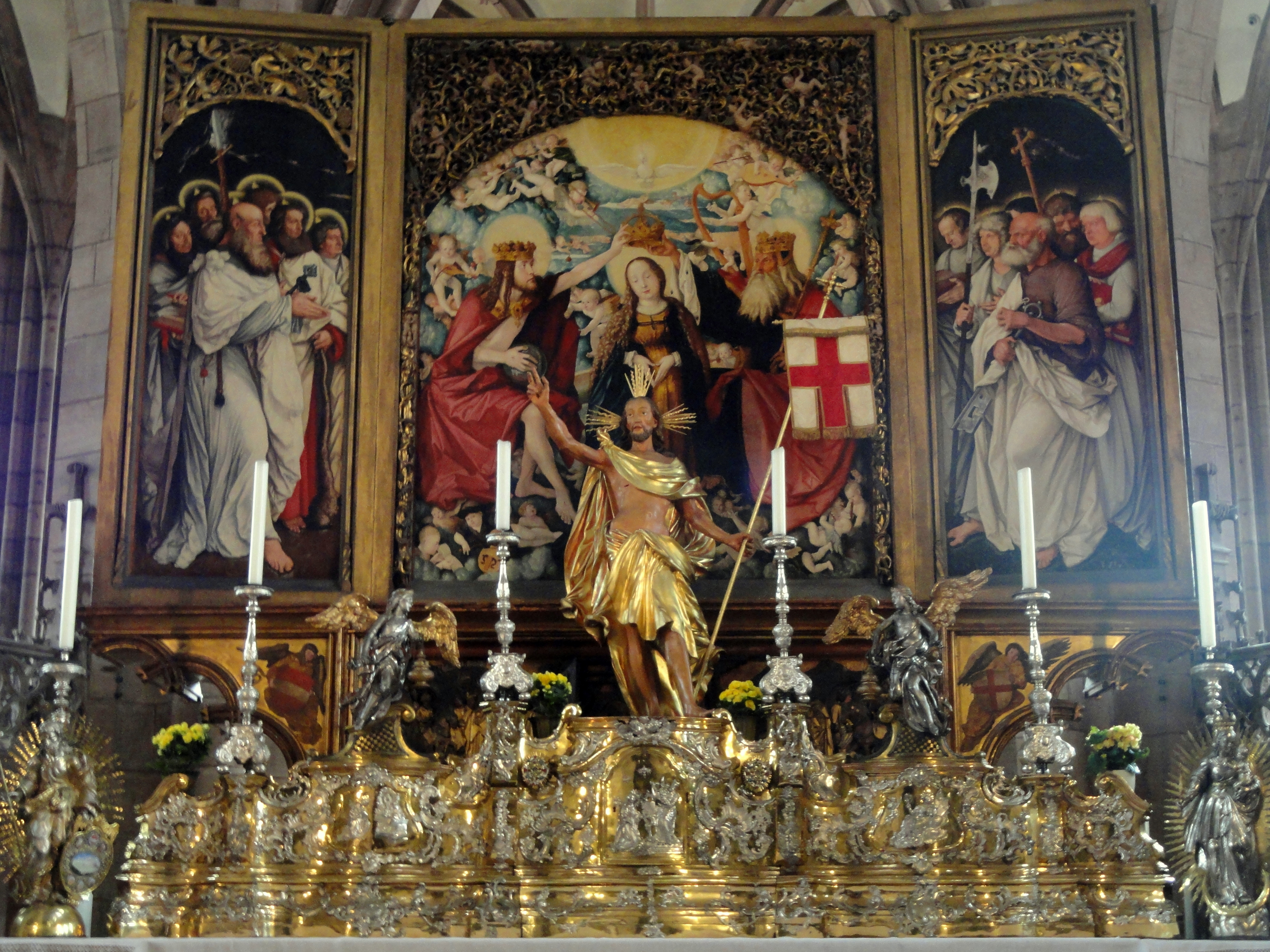 High altar of Freiburg Minster, Freiburg im Breisgau, Baden-Württemberg, Germany.